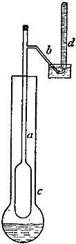 Meyer’s Air Expulsion Method.